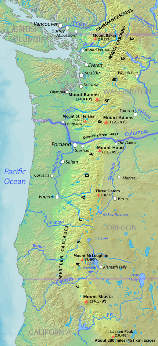 Map of the Cascade Range in CA, OR, WA and BC and surrounds; includes major peaks and elevations, as well as major rivers and cities